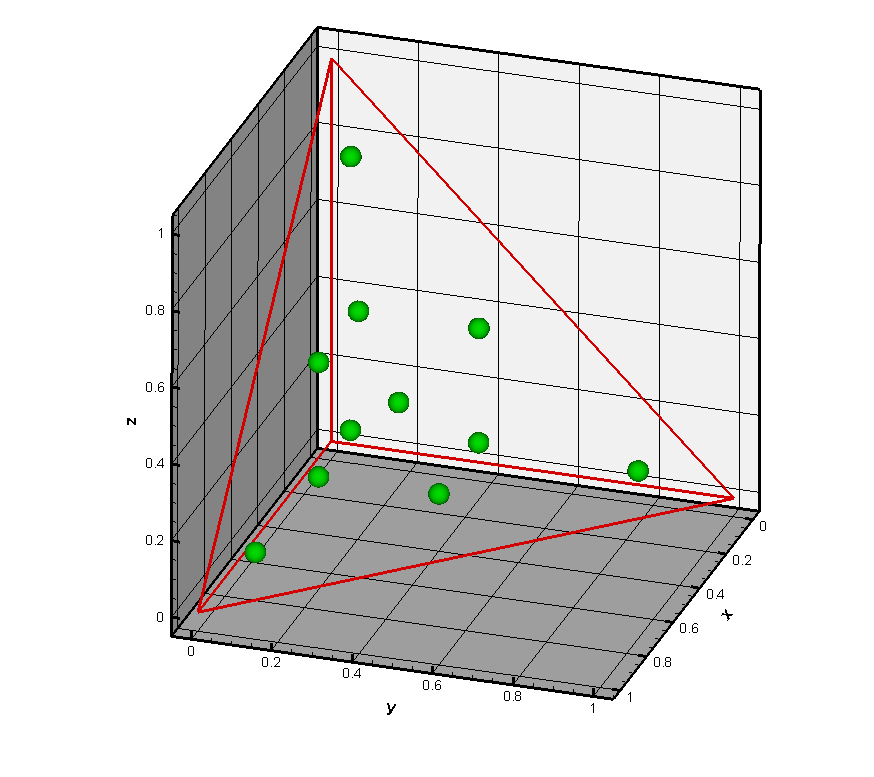 Numerical integration on tetrahedron domain, 11 points formula